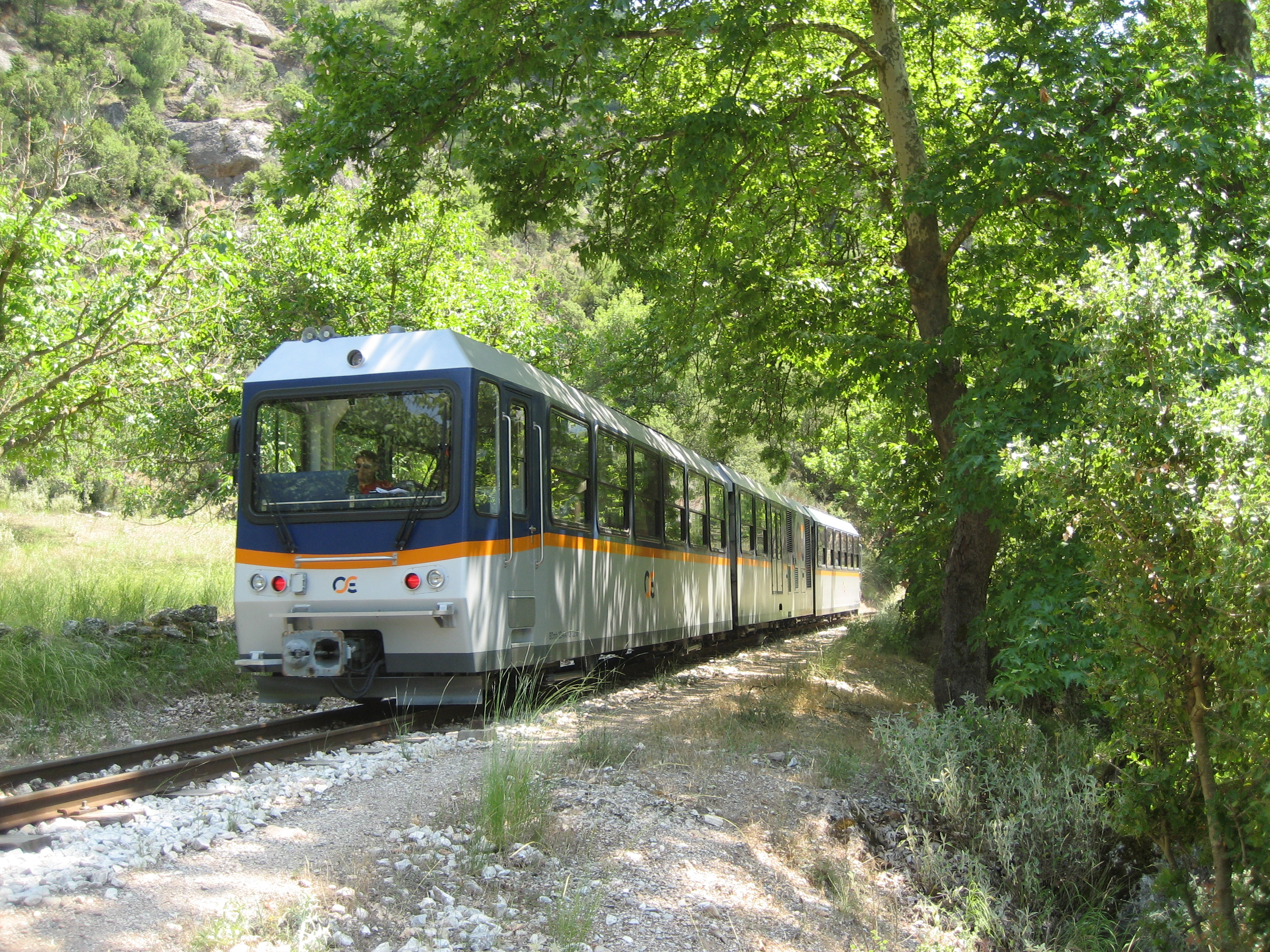 Diakofto-Kalavrita railway, Greece